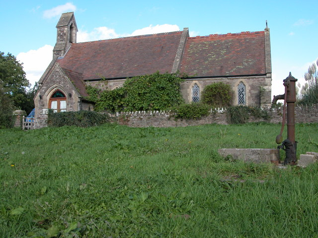 Converted church at Llanfaenor.